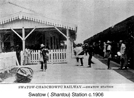 Picture of Swatow station in China in 1906.